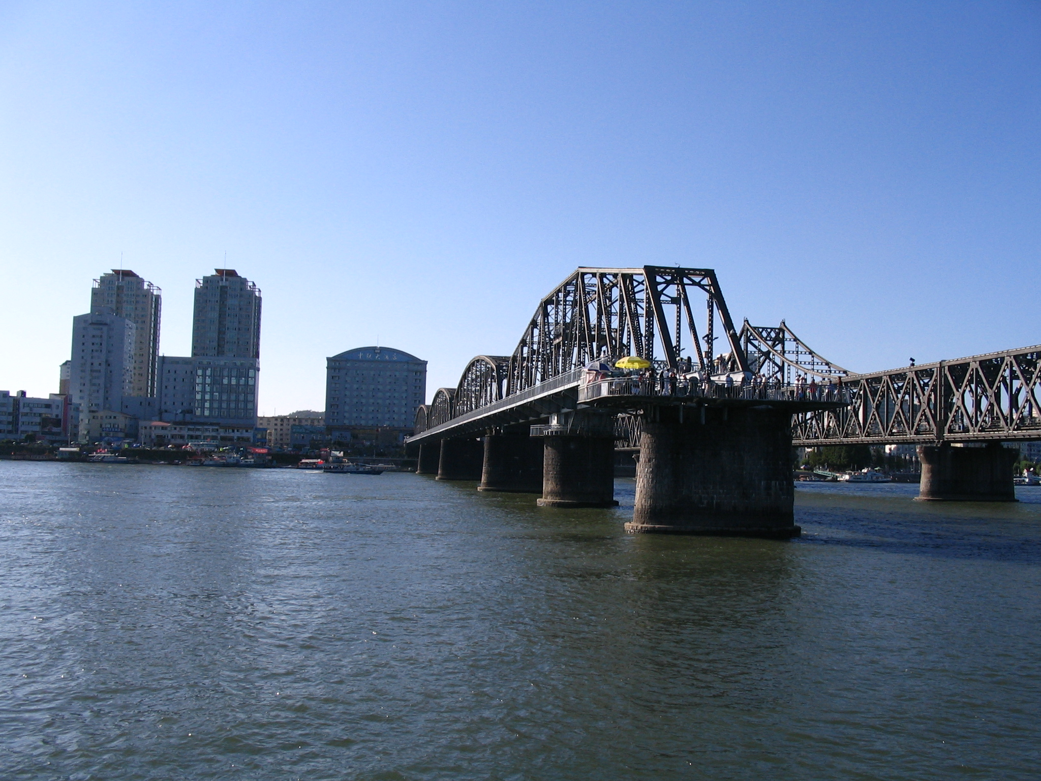 View of Dandong from North Korean bank of the Yalu River with China-Korea Friendship Bridge